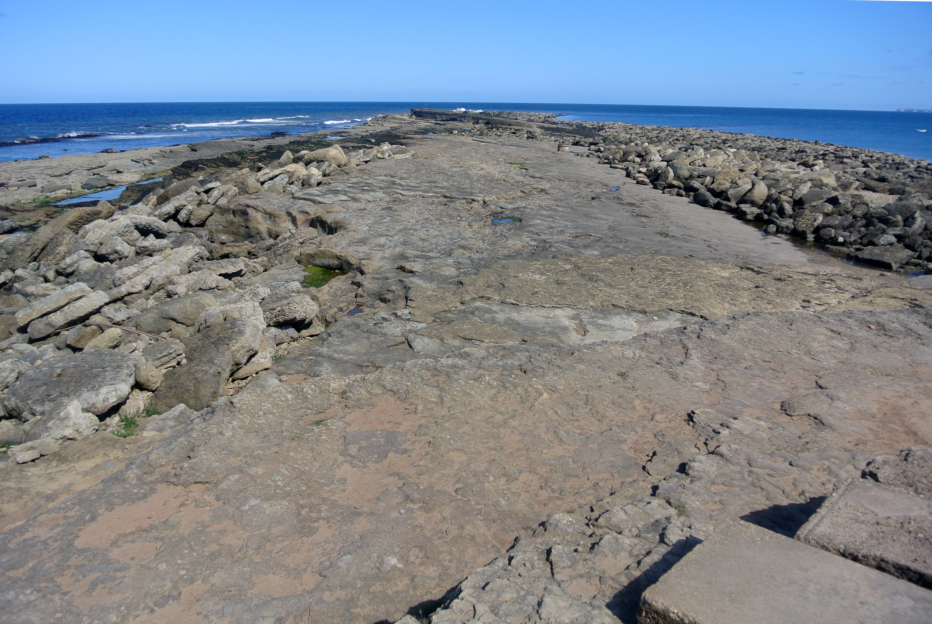 The Brigg at Filey Brigg, North Yorkshire, England.